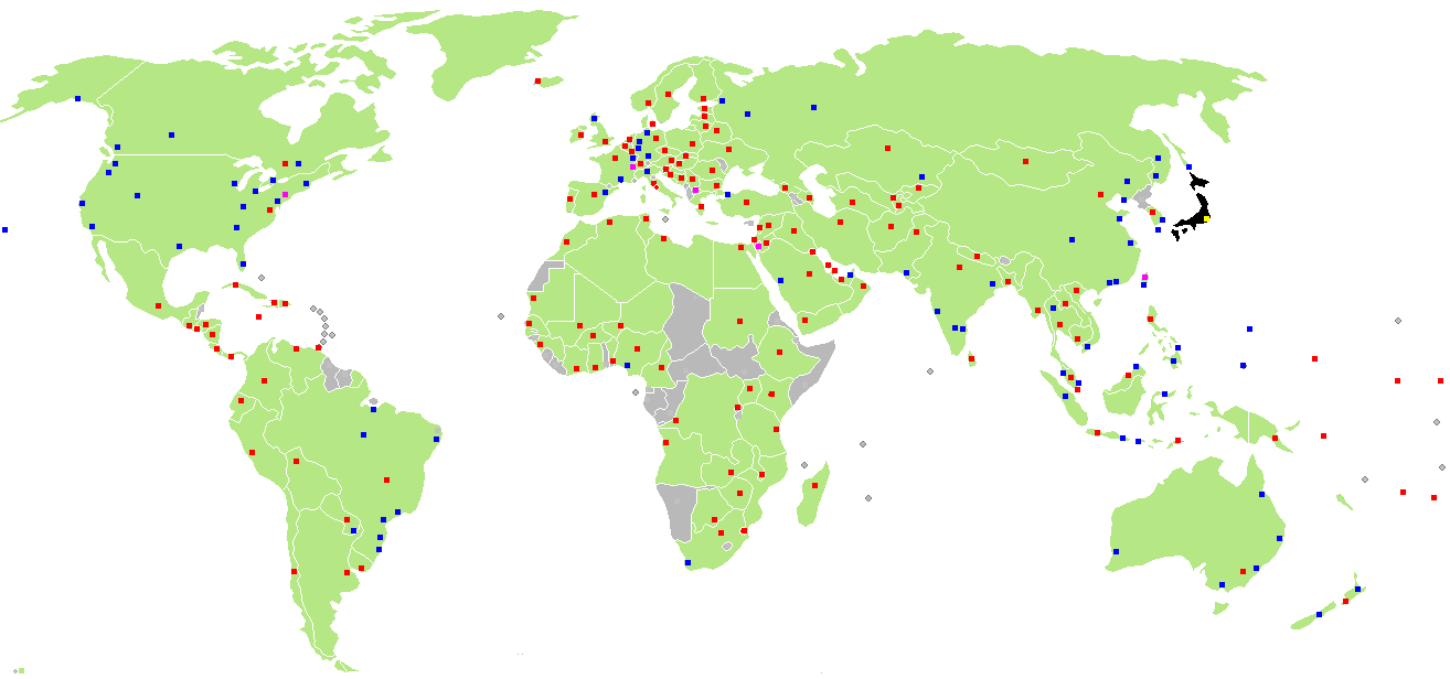 Japanese diplomatic missions